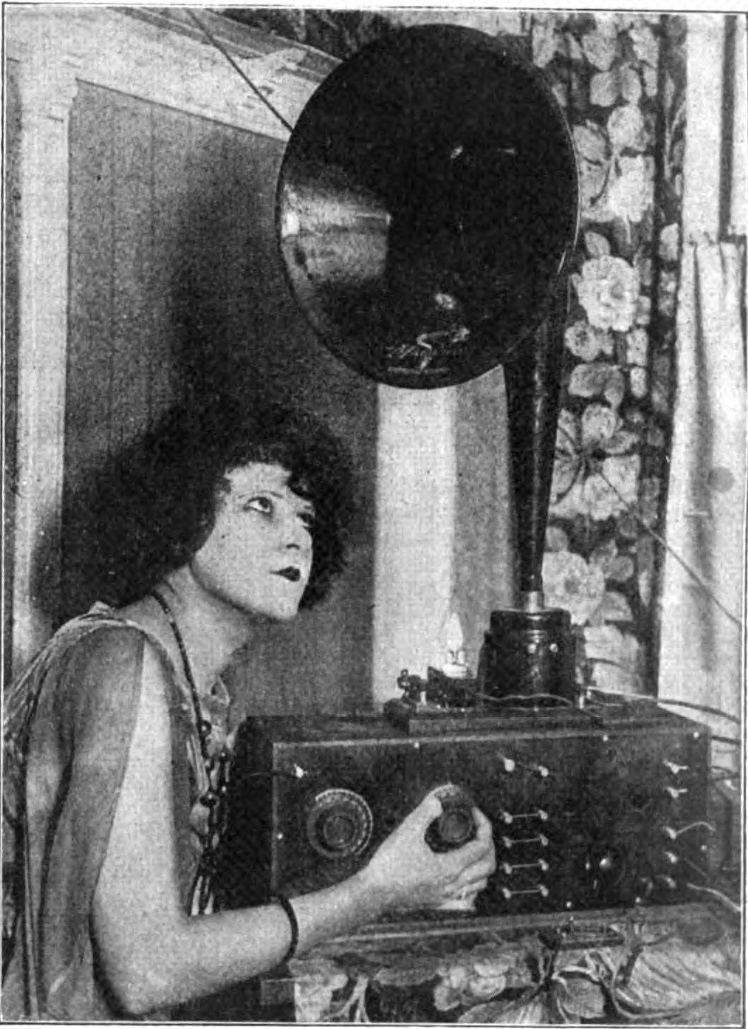 Woman tuning early radio, from 1923 radio magazine. Broadcasting had just begun in 1920 and vacuum tube radio receivers like this had just come on the market.. They ran off batteries, usually a 3-6V storage battery to power the vacuum tubes' filaments and a 30-90V "B" battery to provide the plate voltage. This woman kept forgetting to turn off the set, running the battery down, so she has wired a small indicator lamp (on top of radio) in the filament circuit to remind her. The early vacuum tubes could not produce much audio power, so early radios used horn loudspeakers, like the one on top of the set. The horn coupled sound from the speaker's diaphragm to the outside air better, and so could produce 10 times (10 dB) more sound power from a given audio signal than a cone speaker. Caption: A fair fan's idea that saves a lot of worry when she shuts off for the evening. Miss Margie O'Neil found that she sometimes went to her downy and forgot to turn the current off her Magnavox, with the result that her battery was run down the next morning. So she placed a small 6V lamp in series with the battery line, which warns her to "turn off". Alterations to image: Removed aliasing artifacts (crosshatched lines) introduced when the original halftone photo was scanned, using Gimp FFT filter.